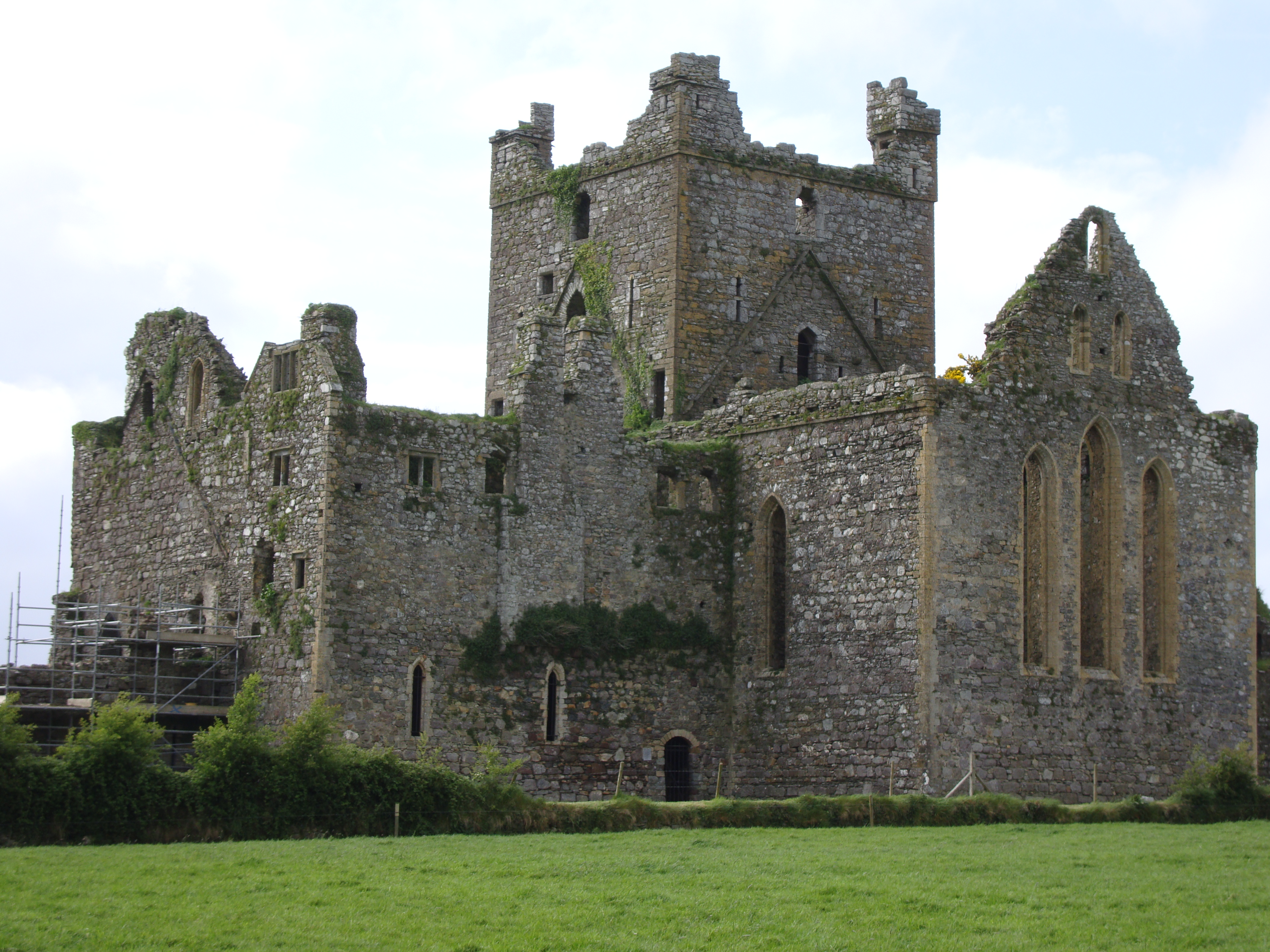 Photograph of Dunbrody Abbey, Co. Wexford, Republic of Ireland